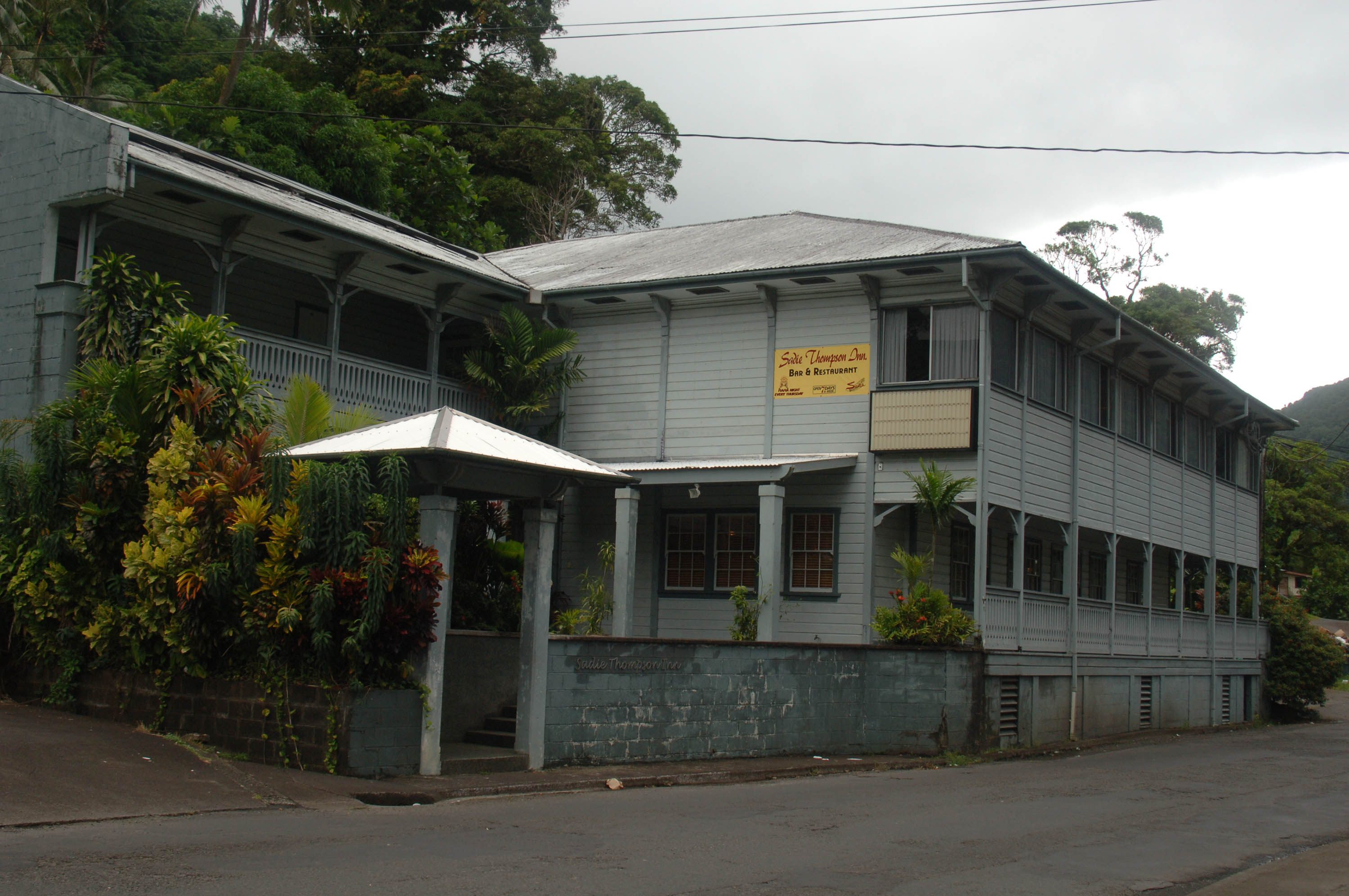 Sadie Thompson Building W. SOMERSET MAUGHAN STAYED HERE IN 1916 AND BASED HIS SHORT STORY "RAIN" BASED ON SADIE THOMPSON WHO HAD BEEN DRIVEN FROM HONOLULU'S RED LIGHT DISTRICT